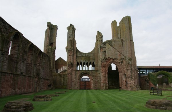 The nave of Arbroath Abbey, Scotland